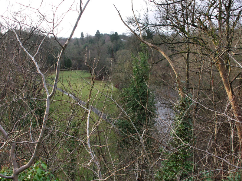 View of Linn Park from the site of Cathcart Castle